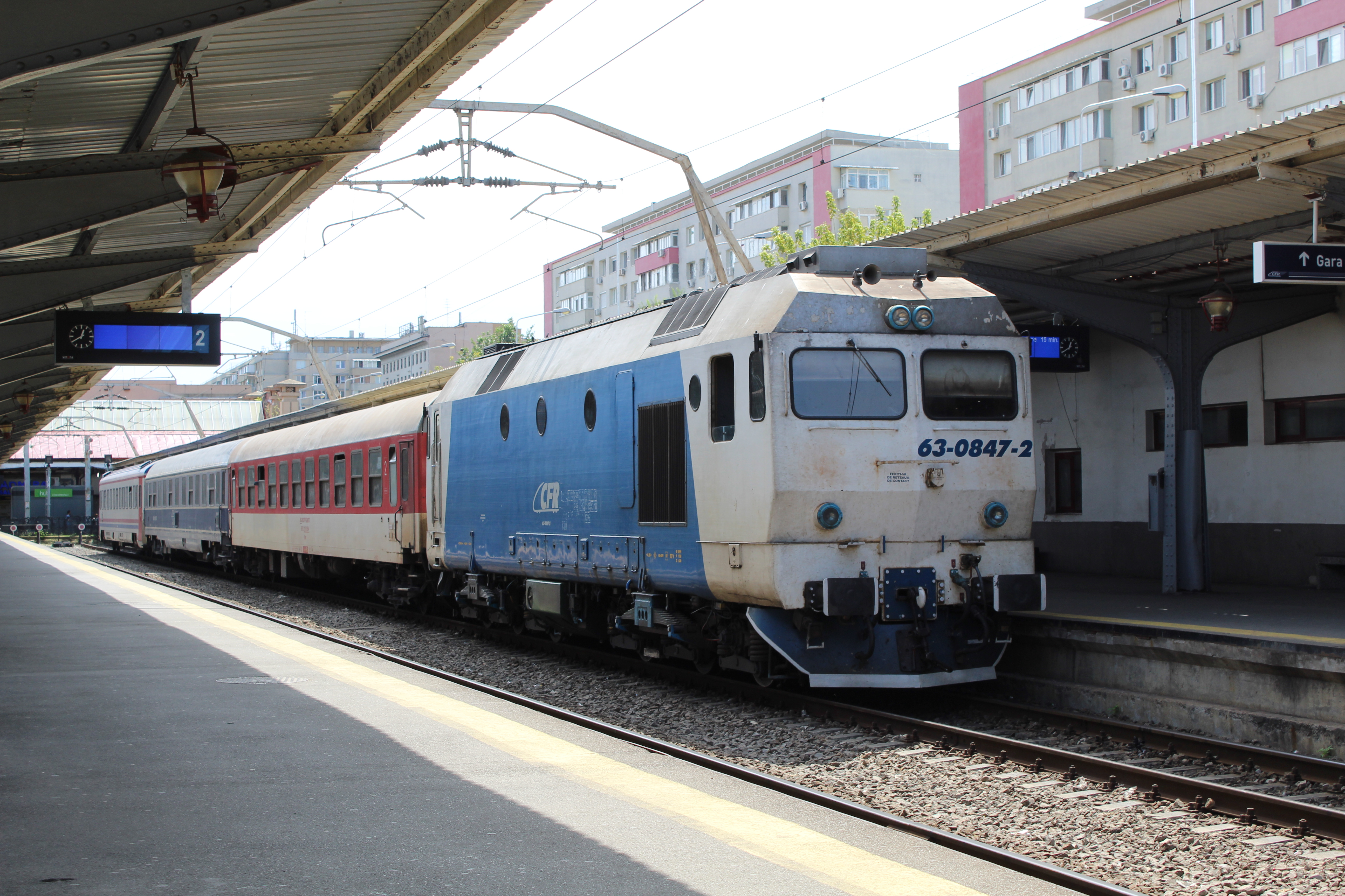 The Bosphorus Express train in the Bucharest North railway station, pulled by CFR GM 63-0847-2